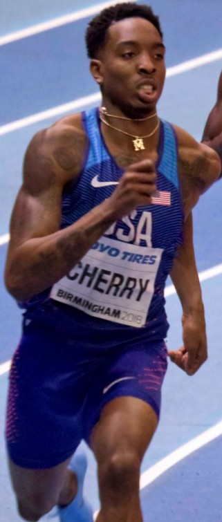 WK3B0266 400m finale heren